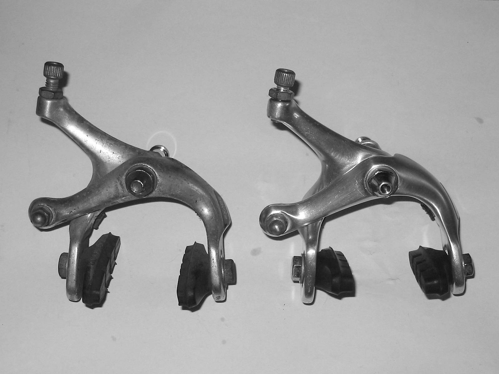 Shimano Exage road brake caliper